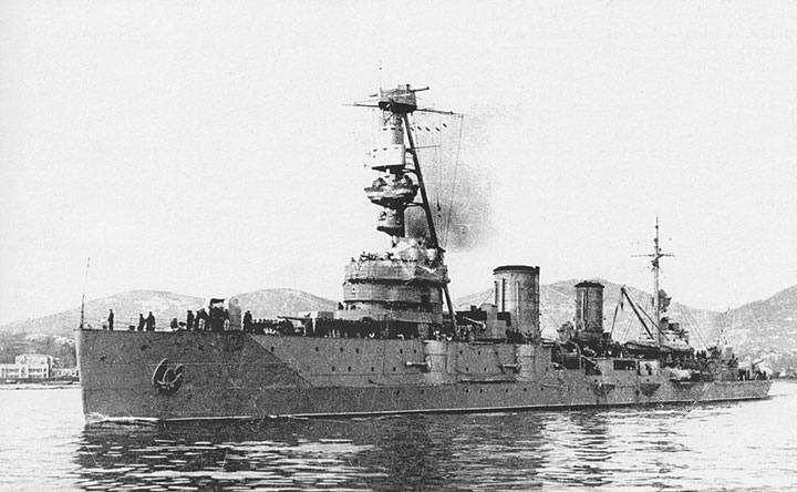 Soviet light cruiser Krasnyi Krym at Sevastopol in 1943.